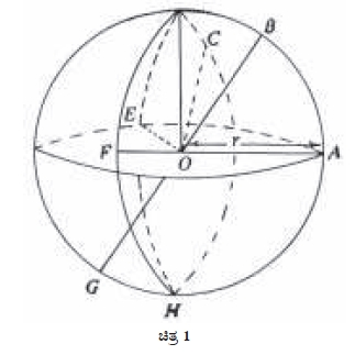 diagram